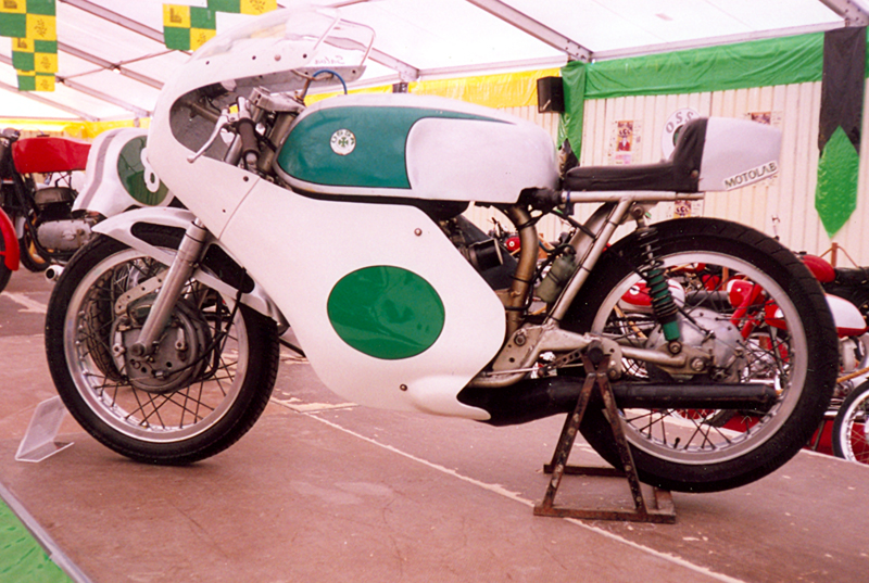 Motorcycle OSSA 250cc GP (end 1960s)